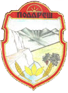 Coat of arms of the former Podareš Municipality, Macedonia.